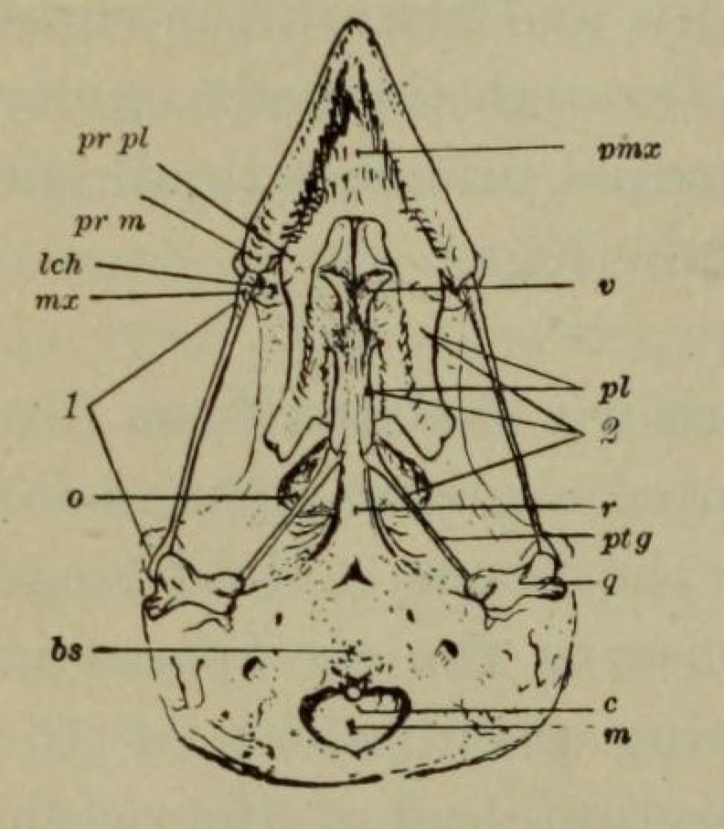 Diagram of the skull of a House Sparrow, from a zoology textbook. The caption reads: Skull of Sparrow, slightly enlarged (ventral view, mandible removed): m, foramen magnum; c, occipital condyle; bs, basisphenoid; r, rostrum; 1, quadratojugal bar; 2, palato-pterygoid bar; q, quadrate; ptg, pterygoid; pl, palatine; v, vomer; lch, lachrymal; mx, maxillary portion of quadrojugal bar; pmx, premaxillary; pr pl, palatine process of premaxillary; pr m, maxillary process of premaxillary; o, opening between orbits and cranial cavity (closed in life by membrane).